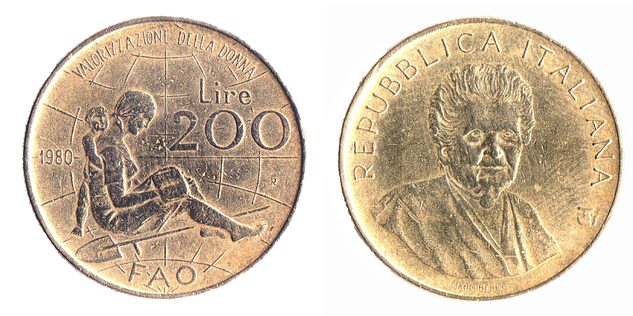 200 lire fao montessori